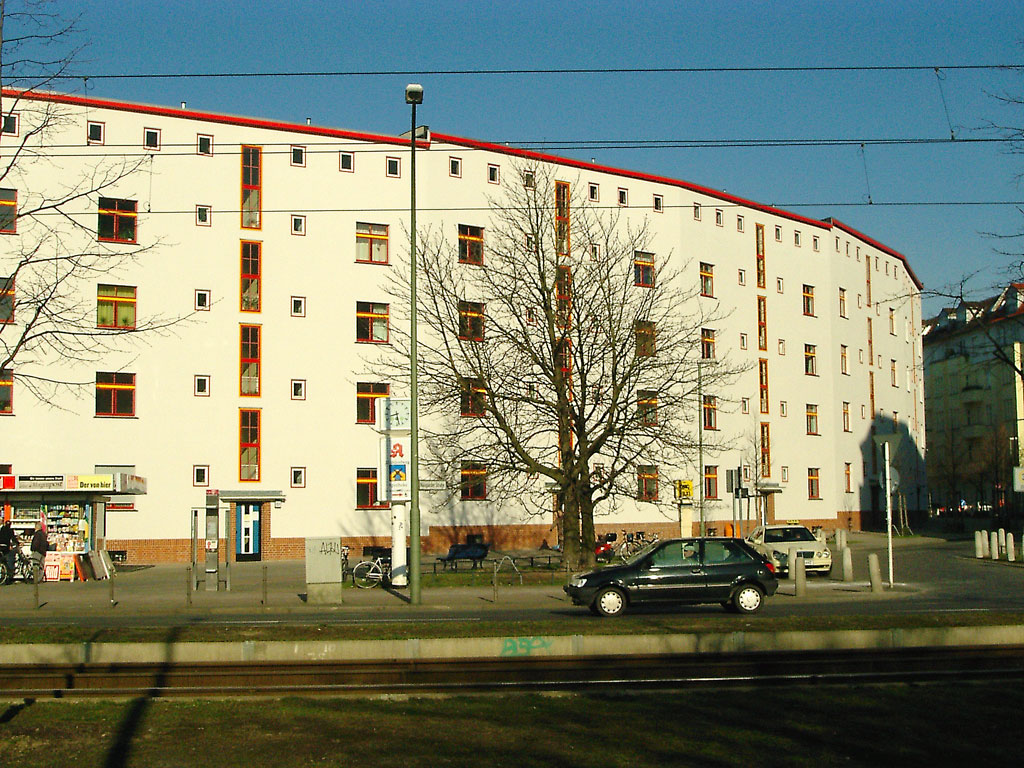 Houses from 1920s in Prenzlauer Berg close to Greifswalder Str. / Naugarder Str.; Berlin, Germany